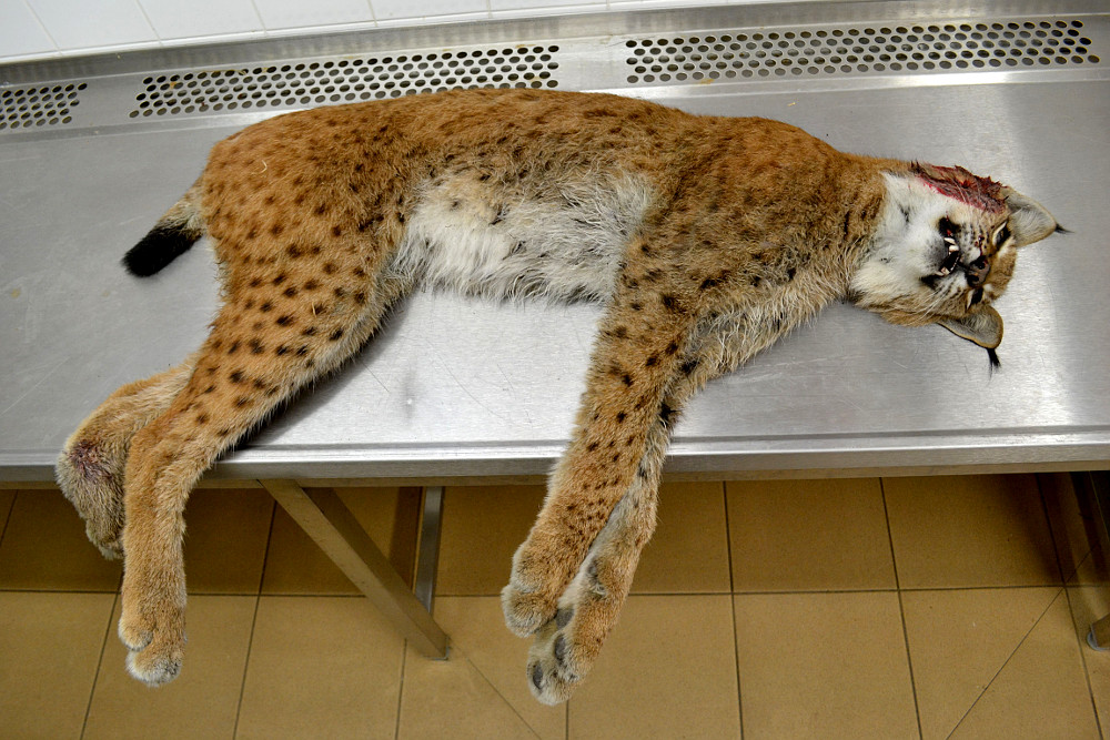 Dead eurasian lynx killed by a car on the D1 motorway, Czech Republic, in early October 2013.